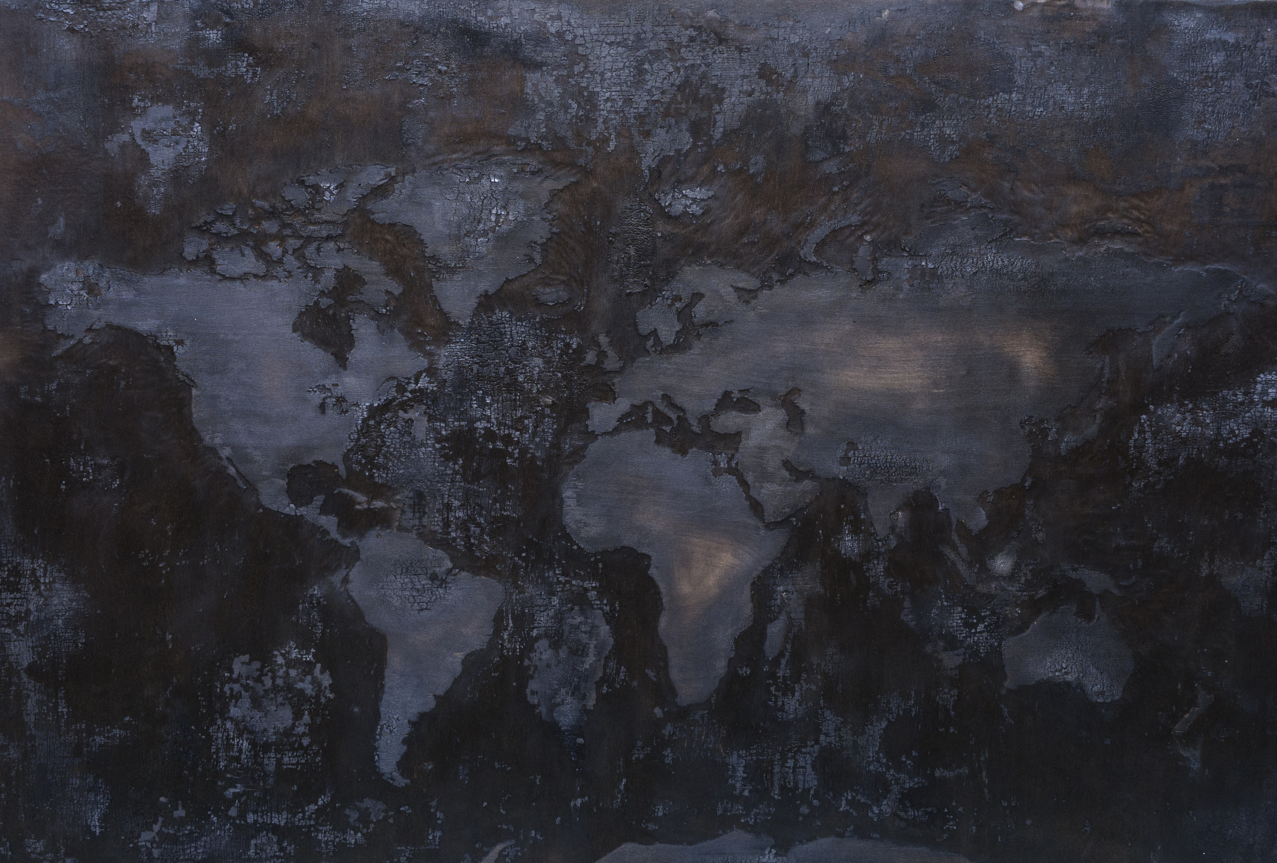 "Jääkarhuden jälkeen" ("After Polar Bears"), a coal surface painting by Finnish artist Elina Helkala.